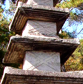 Unjusa Geobuk Bawi Gyochamun Chilcheung Seoktap (seven-storied stone pagoda with crossing pattern on a turtled-shaped rock base) at Unjusa near Gwangju (Hwasun/Yongyang) - crop, level adjust of full-sized image by User:Steve46814